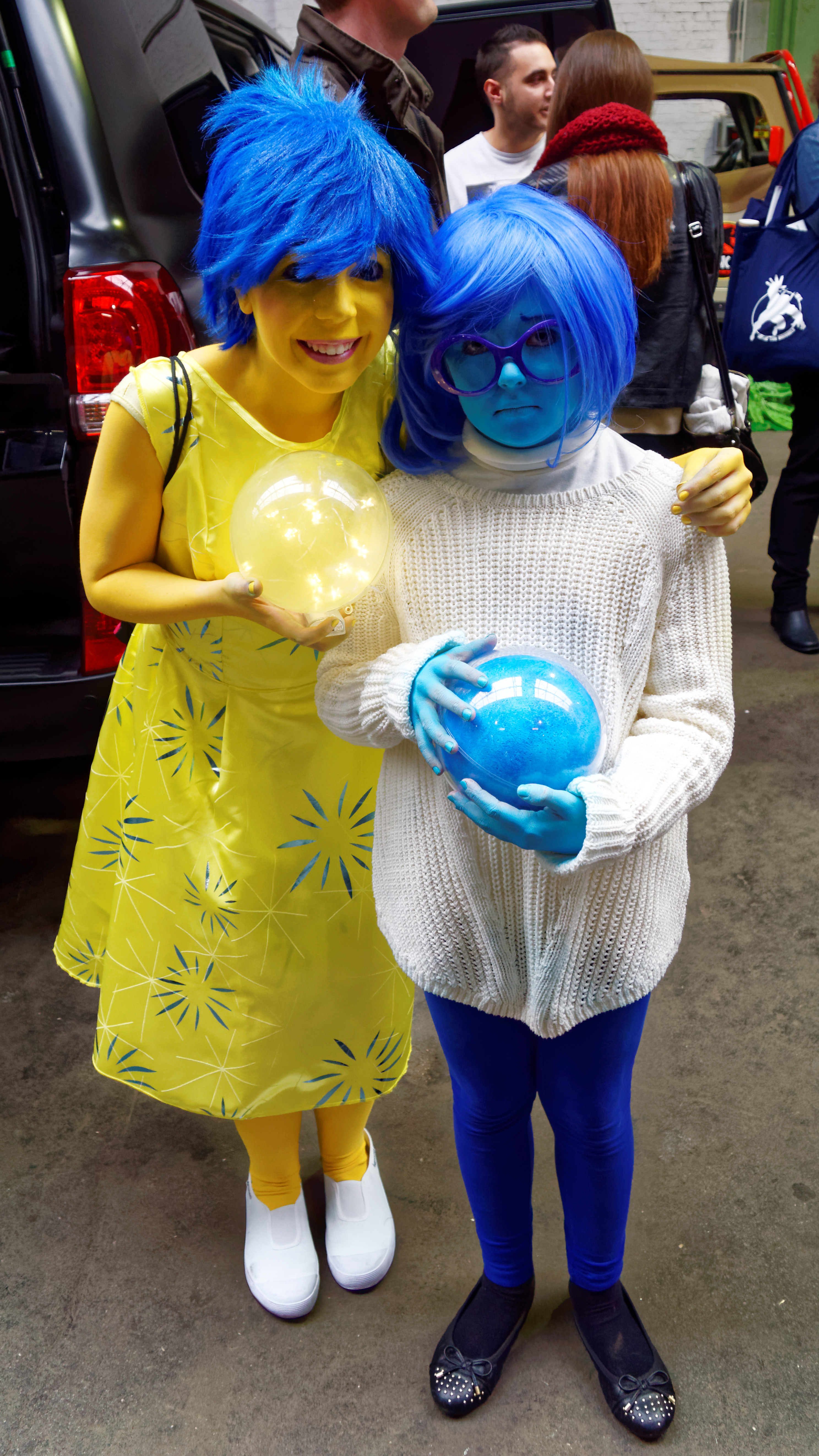 Cosplay at Comic Con Brussles 2016 (CCBX 2016).